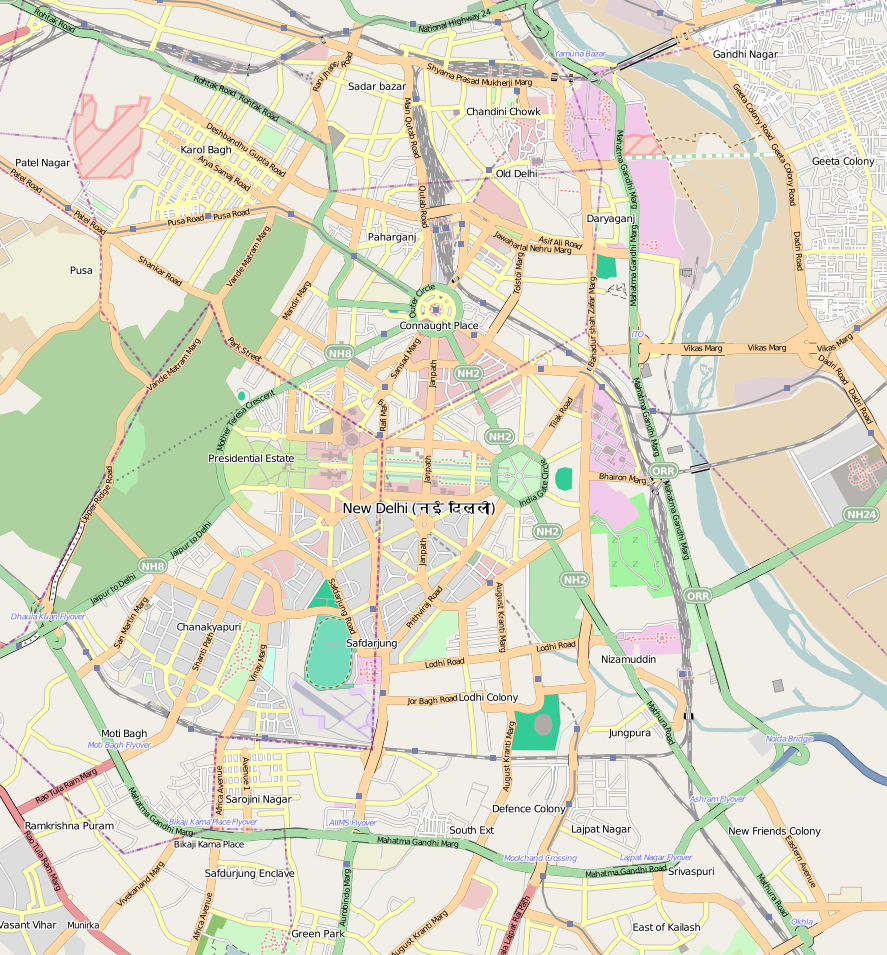 Map of New Delhi, India Geographic limits of the map: N: 28.6701° N S: 28.5521° N W: 77.1599° E E: 77.2816° E